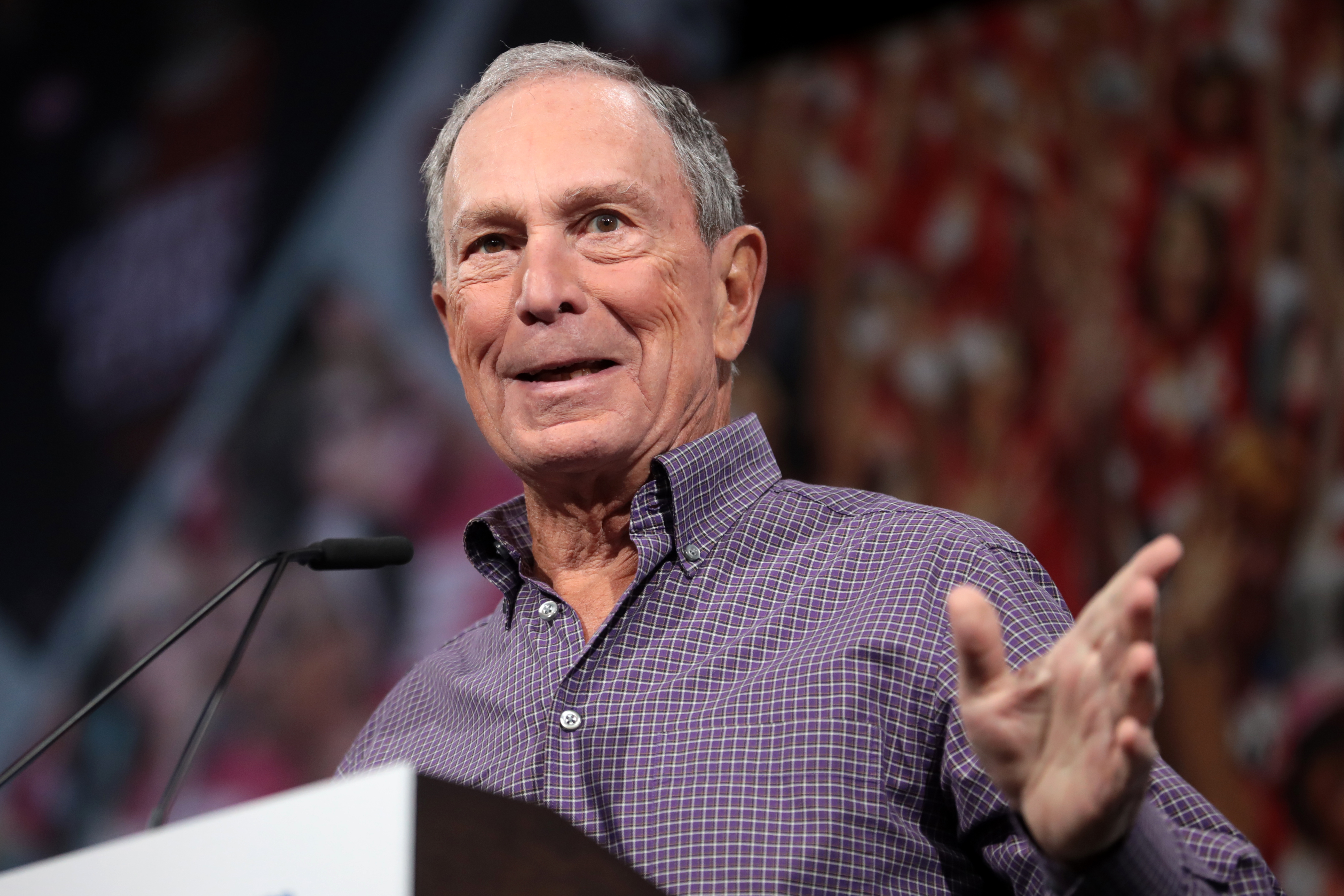 Former Mayor Michael Bloomberg speaking with attendees at the Presidential Gun Sense Forum hosted by Everytown for Gun Safety and Moms Demand Action at the Iowa Events Center in Des Moines, Iowa.